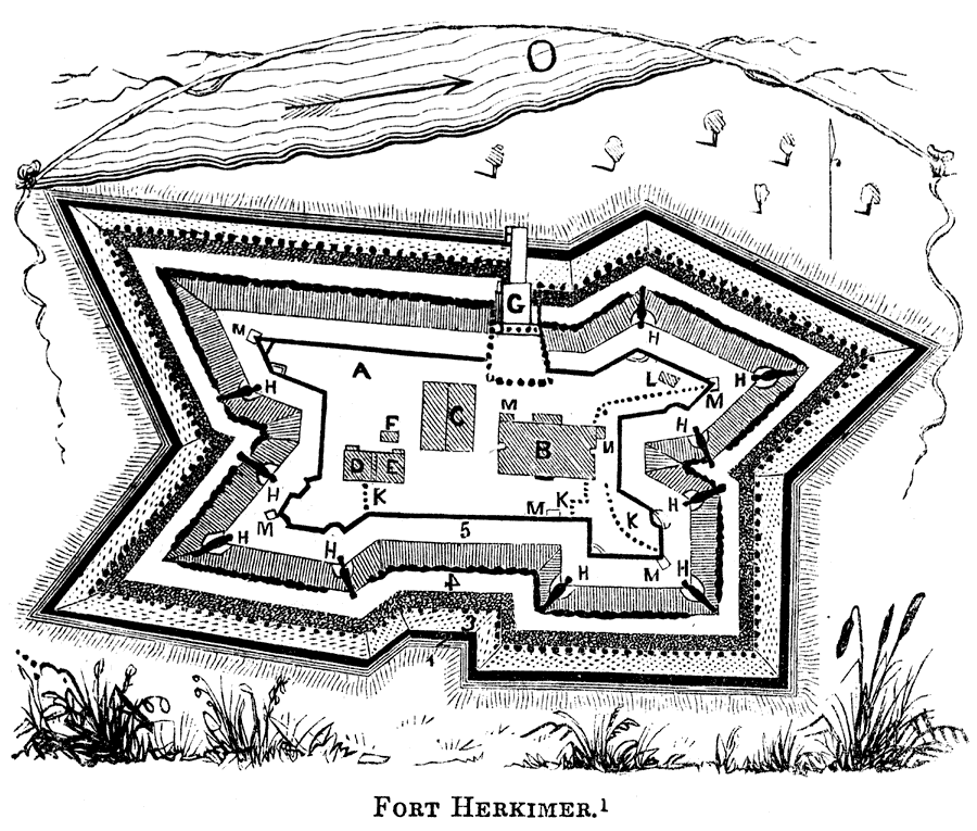 Drawing of Fort Herkimer, also known as Fort Dayton, in Herkimer, New York. It was the scene of the Attack on German Flatts (1778) and was also briefly besieged in 1782.